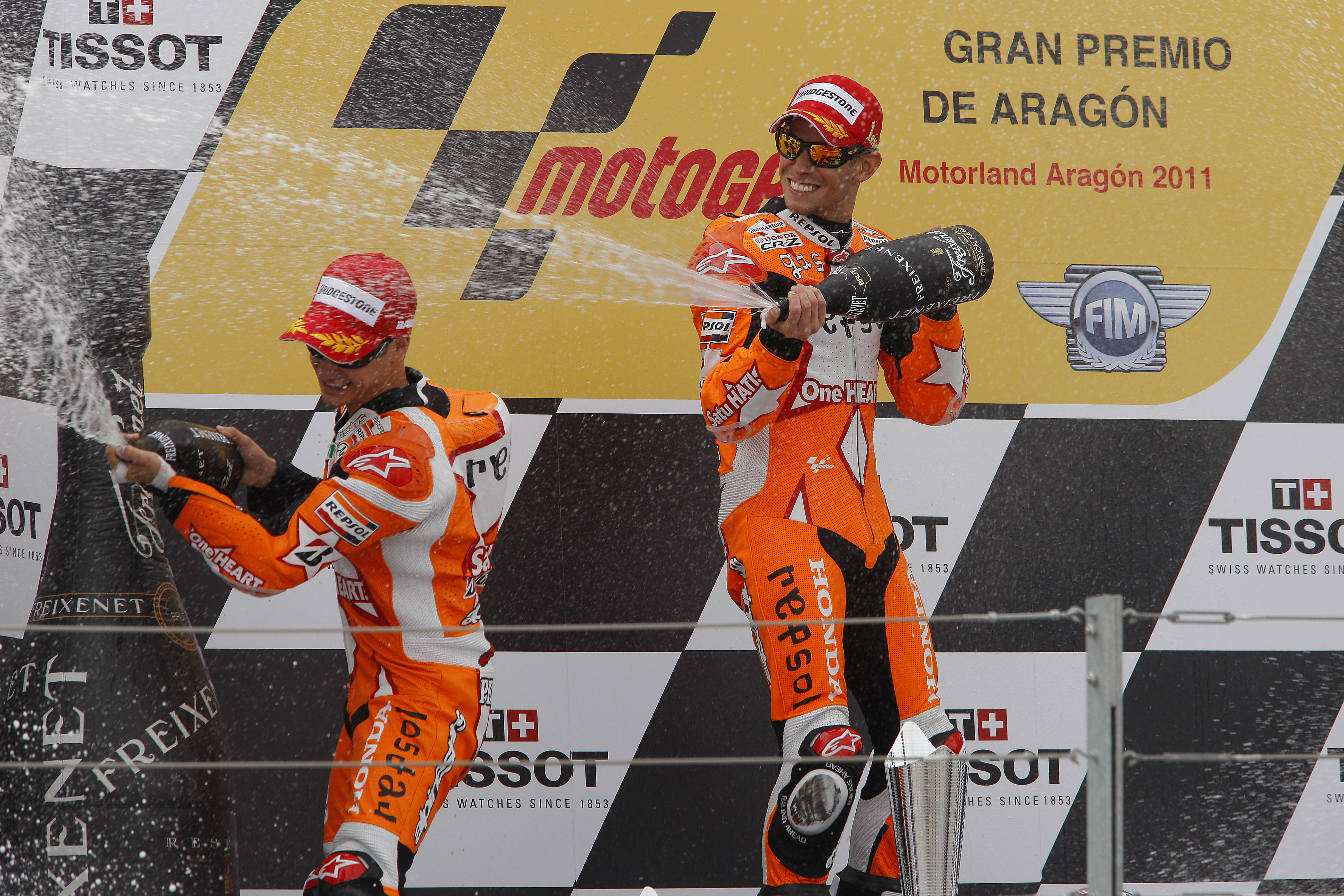 Dani Pedrosa and Casey Stoner, spraying the champagne and celebrating on the podium after finishing in second and first place at the 2011 Aragón Grand Prix.